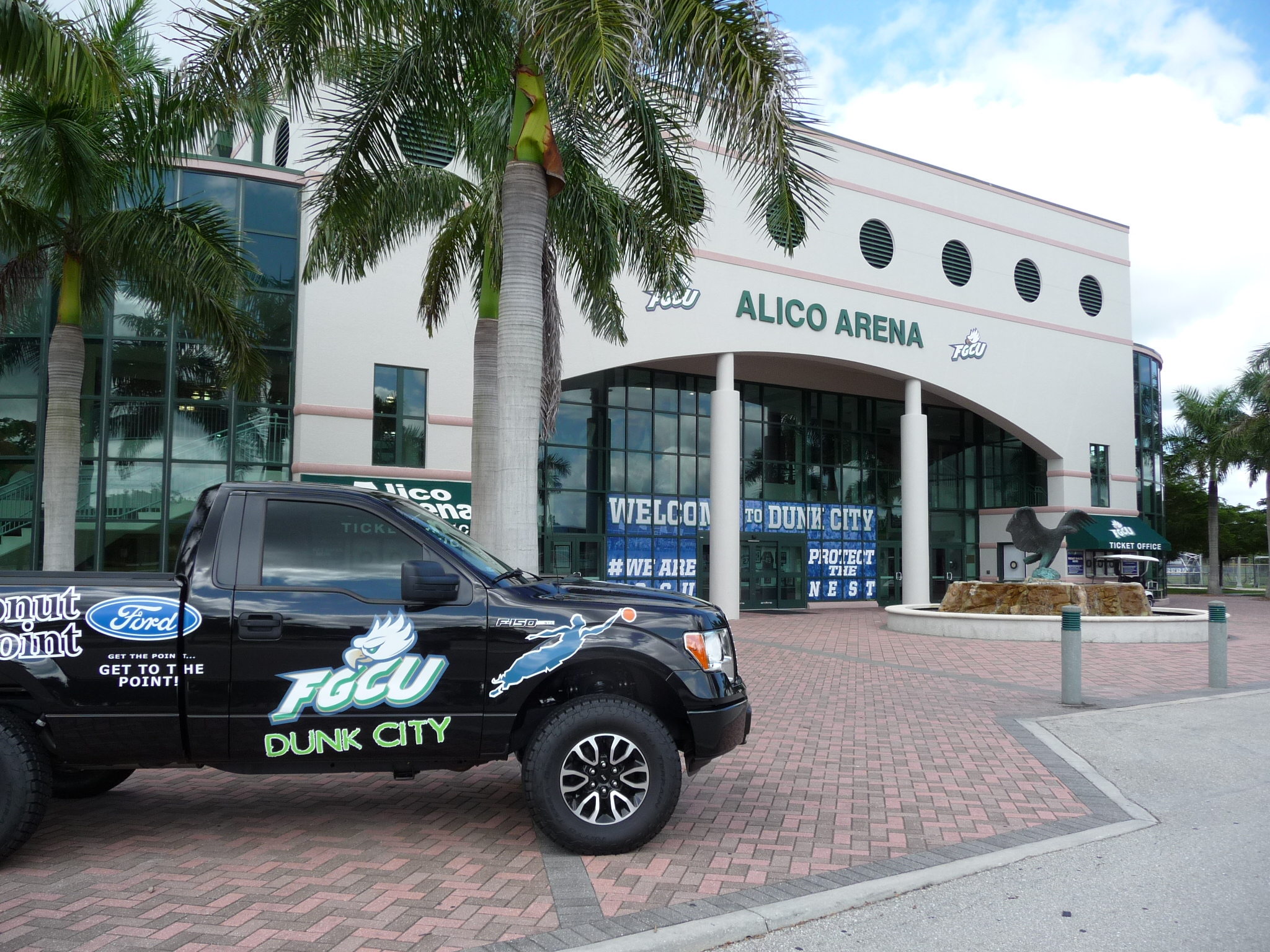 I, Thomas Hair, took this picture in Fall 2013. It show FGCU's Alico Arena.